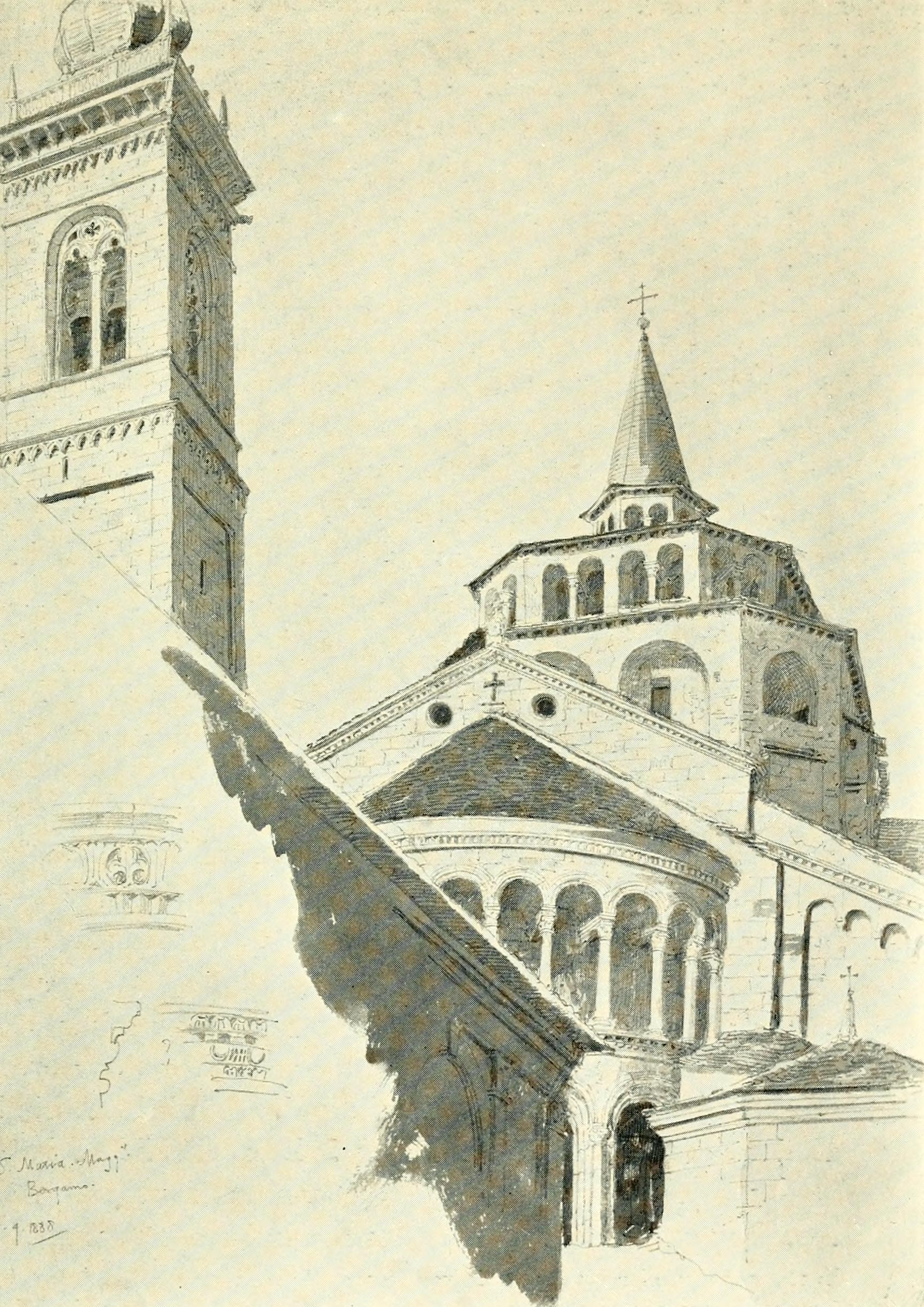 Title: Byzantine and Romanesque architecture Year: 1913 (1910s) Authors: Jackson, Thomas Graham, Sir, 1835-1924 Subjects: Architecture, Byzantine Architecture, Romanesque Publisher: Cambridge (Eng.) University press Text Appearing Before Image: sorts of fantastic inlays on the spandrils of the arcad-ing: in the fa9ade of the Cathedral of Lucca, in 1204 ; inthe arcaded fa9ade and long galleried flank of the Duomoof Zara in Dalmatia consecrated in 1285 ; and in thechurch of S. Grisogono (1175) in the same city. TheThe arcaded gallery was a very general feature round the apse gdkry cven when absent elsewhere. The semi-dome of the apsewas never exposed in Romanesque architecture, but thewall was carried up as a drum and covered with a roof oftimber and tile, and this wall having but little weight tocarry could safely be pierced by these open arcades. Insome cases the outside of the dome may be seen throughthe arches but generally there is a back wall to thegallery. Now and then, as in two churches at Lucca andthe baptistery at Parma, the colonnettes carry a straightlintel instead of the usual arches. We find the sameapsidal gallery in Lombardy, at S. Fedele in Como, atthe cathedrals of Parma and Modena, at S. Maria Plate LXVIII Text Appearing After Image: BERGAMO Plate LXtX .,^^t^\s